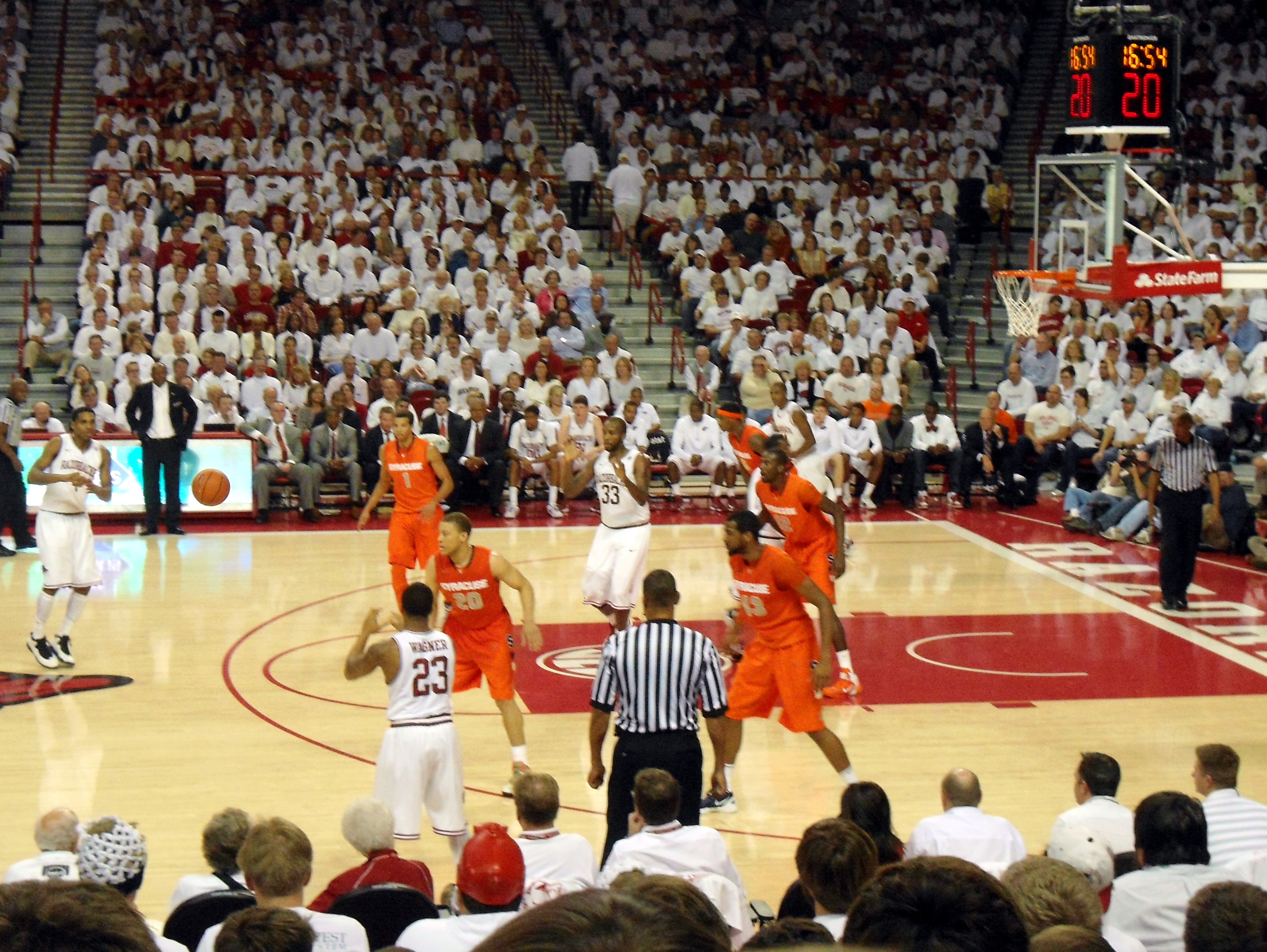 Arkansas Razorbacks and Syracuse Orange men's basketball teams play in an NCAA game at Bud Walton Arena, Fayetteville, AR